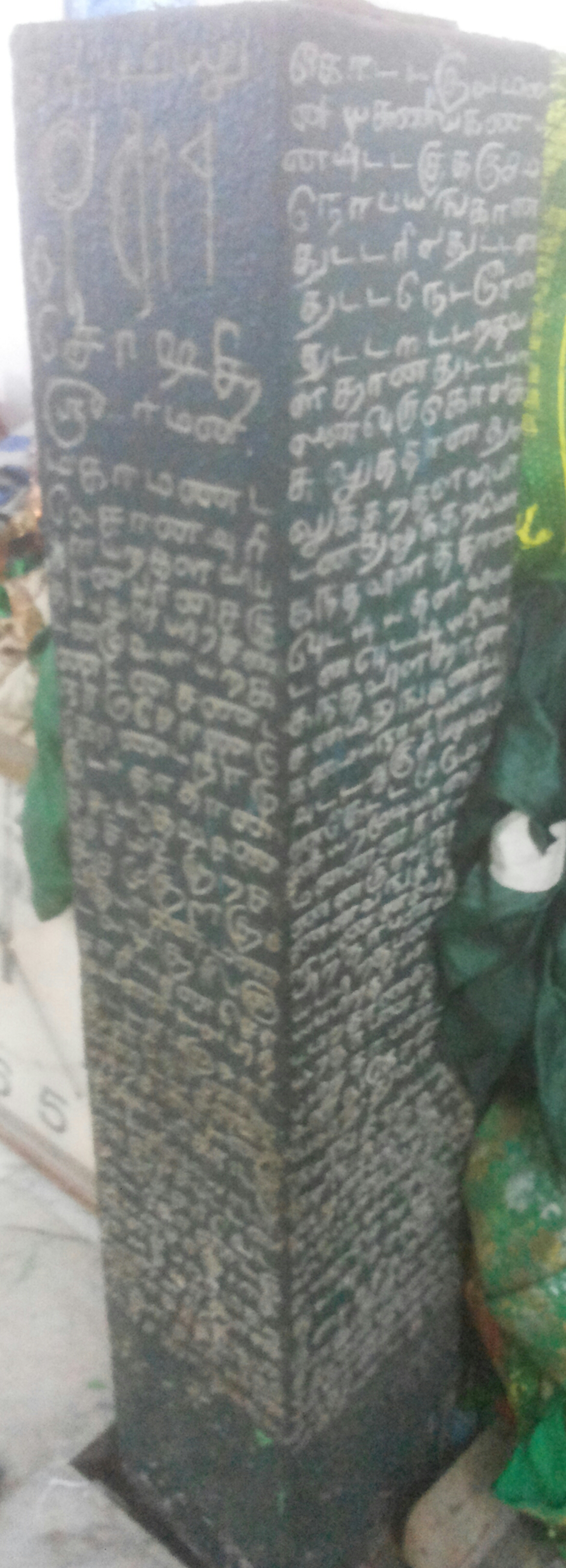 Plaque at Goripalayam dargah